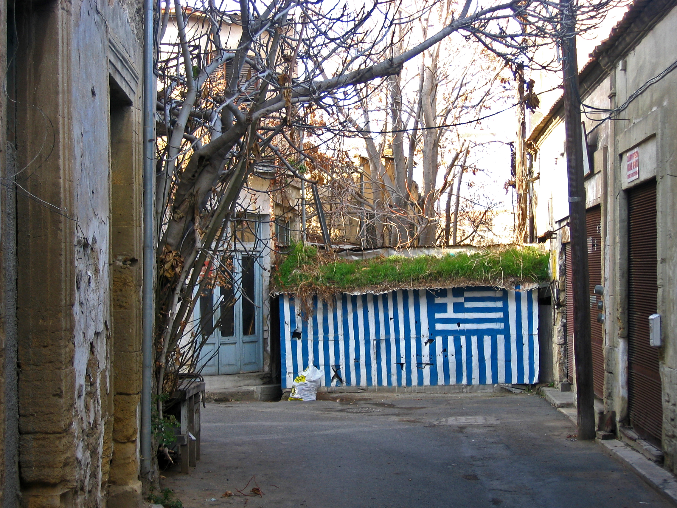 Green Line in Asklipiou street in Nicosia, with a Greek flag painted on the boundary fence